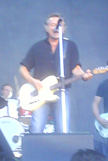 Ulf Lundell performing in Karlskoga 2009